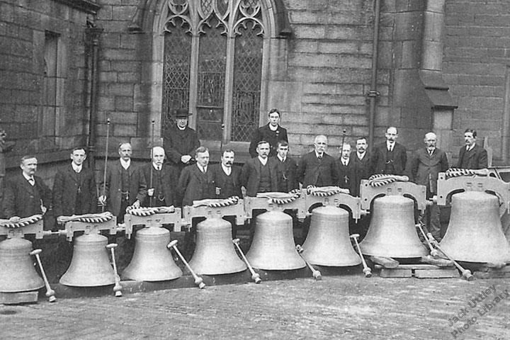 The bells of St Thomas the Apostle parish church, Heptonstall, West Yorkshire, before being installed in the tower in 1912